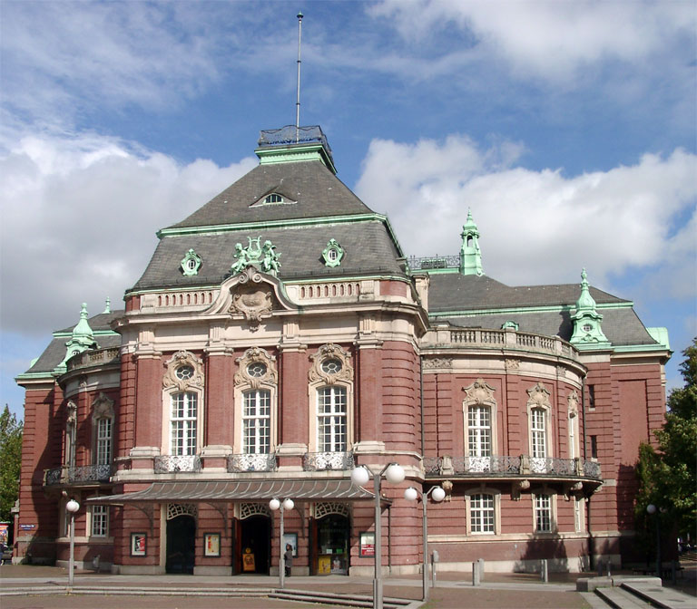 Hamburg, Germany: Laeiszhalle (concert hall) This is a photograph of an architectural monument.